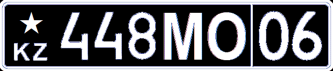 Kazakhstan military license plate since 2014